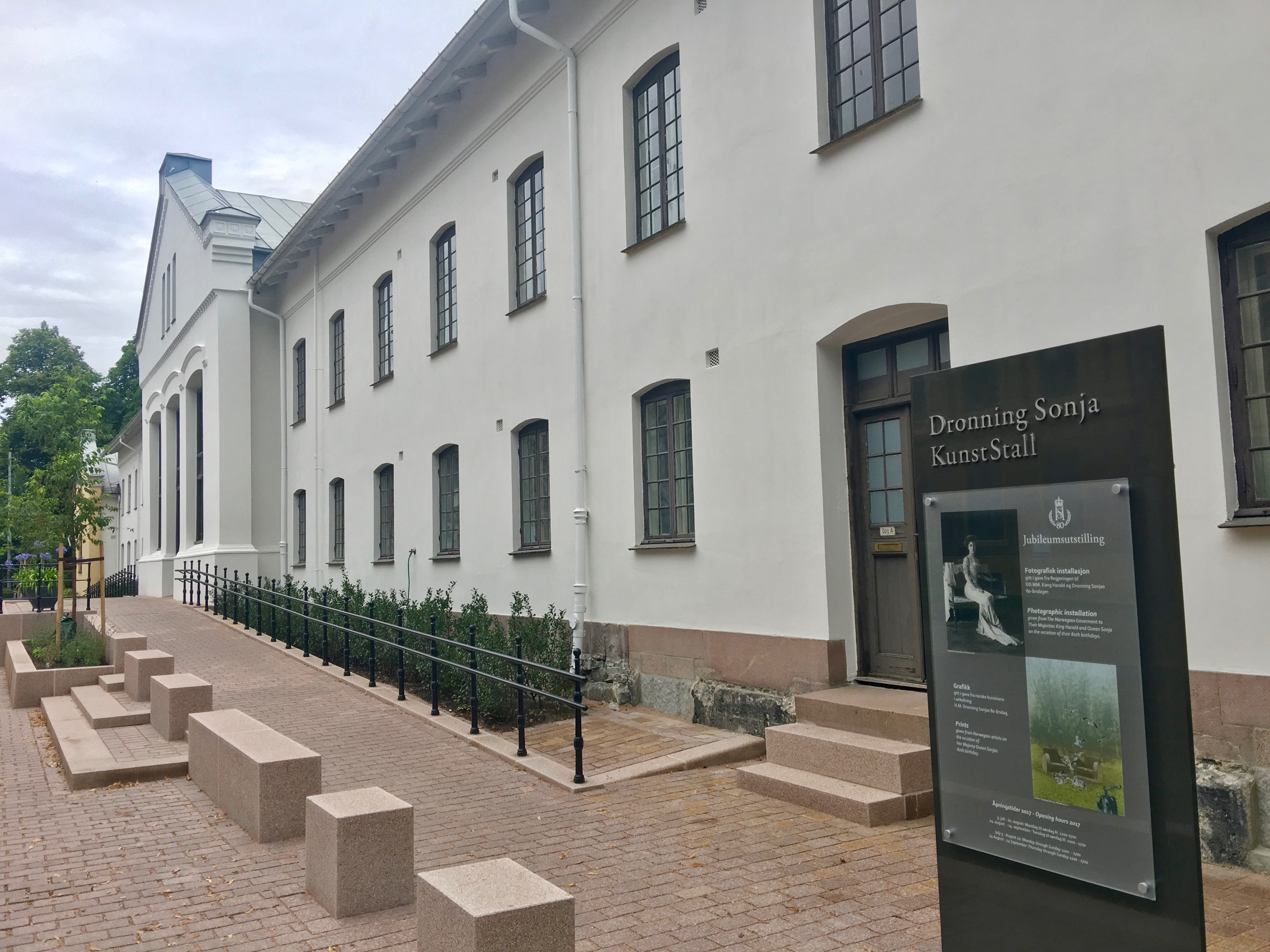 Dronning Sonja KunstStall, Parkveien, Oslo, Norway.